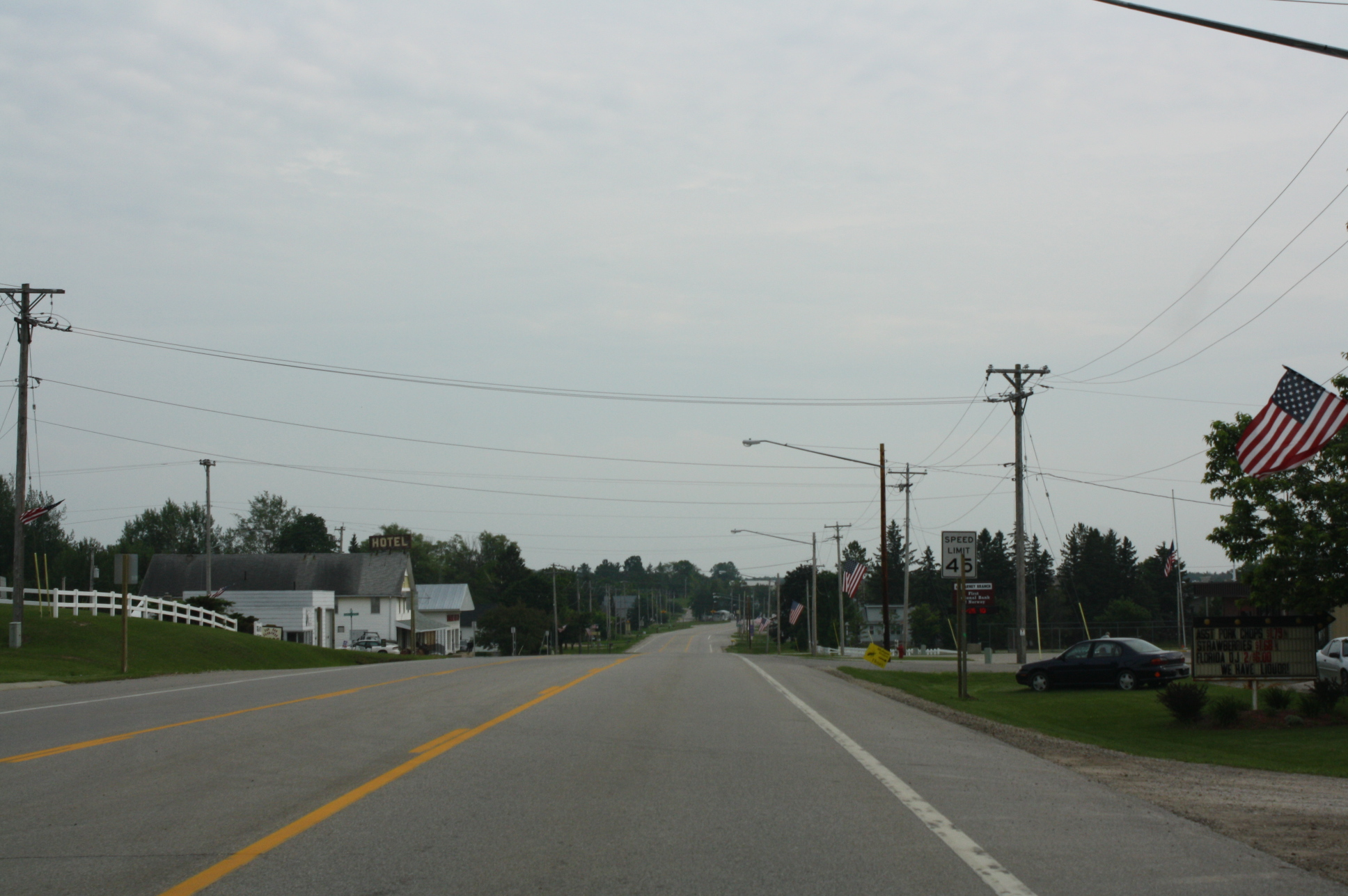 Looking south at downtown Carney, Michigan on U.S. Route 41.